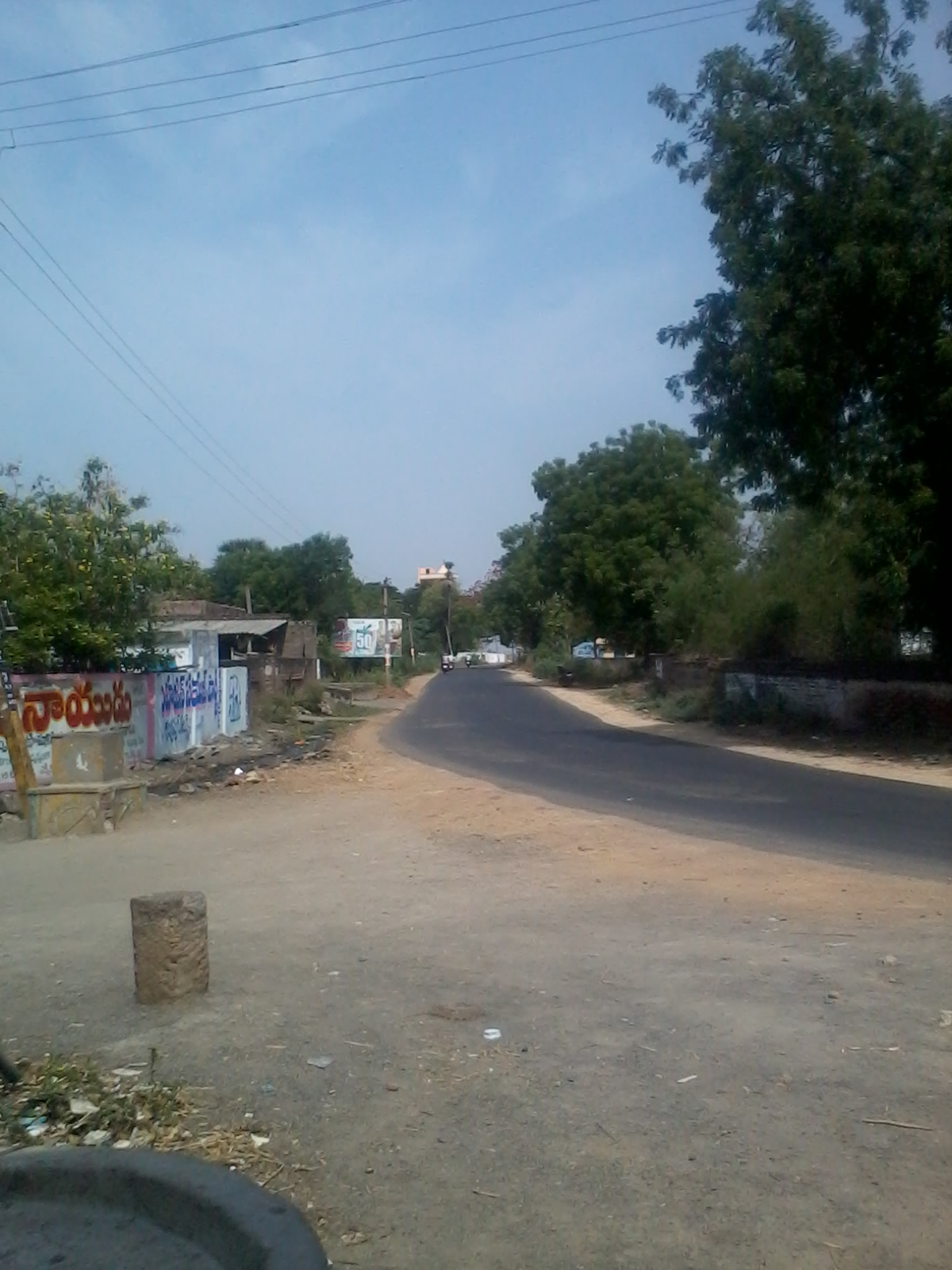 photo of jagannadhapuram main road